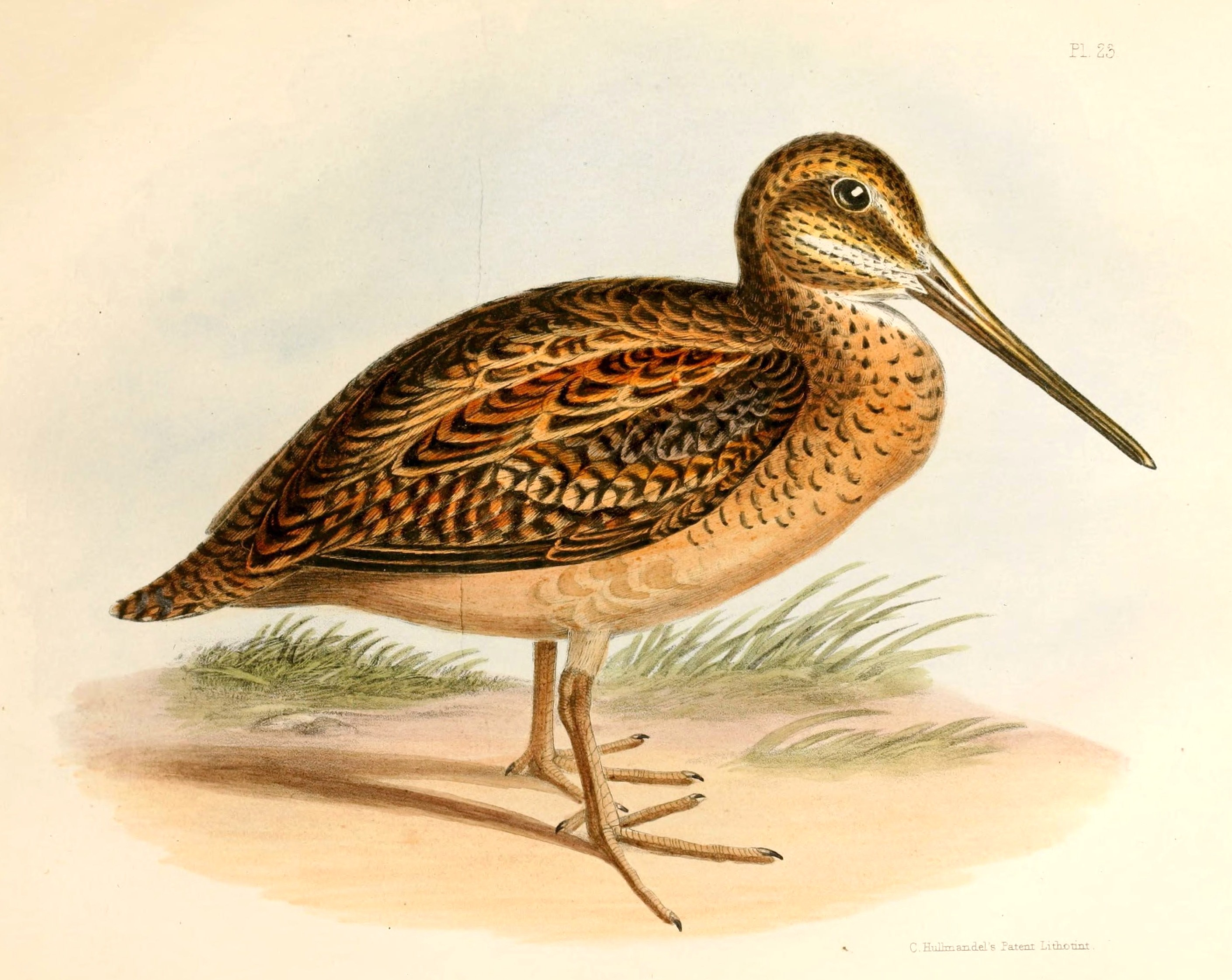 « Scolopax stricklandii » = Gallinago stricklandii (Fuegian Snipe)